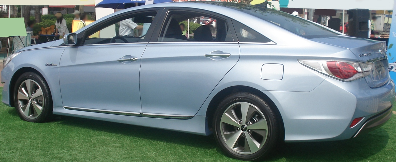 Hyundai Sonata Hybrid